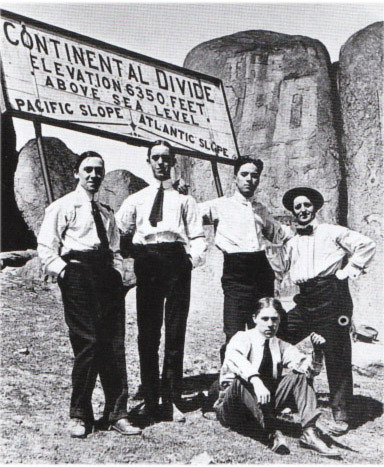 Fred Karno (1st), Stan Laurel (2nd) and Charlie Chaplin (3rd) in 1913 in the USA.